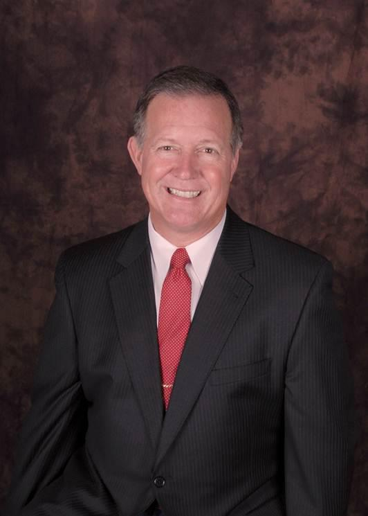 Official portrait of Congressman Randy Weber (R-TX).